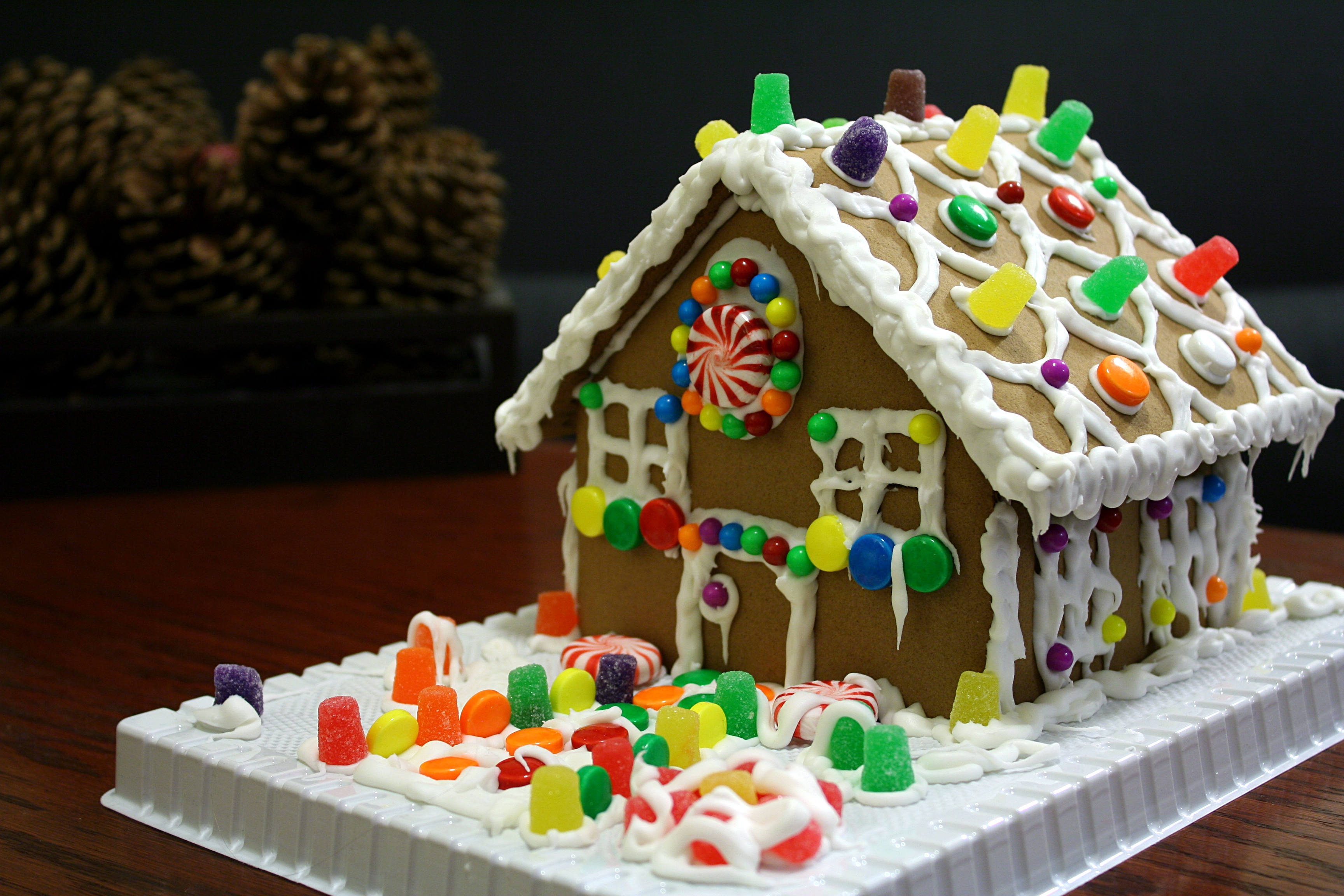 Gingerbread house with gumdrops.